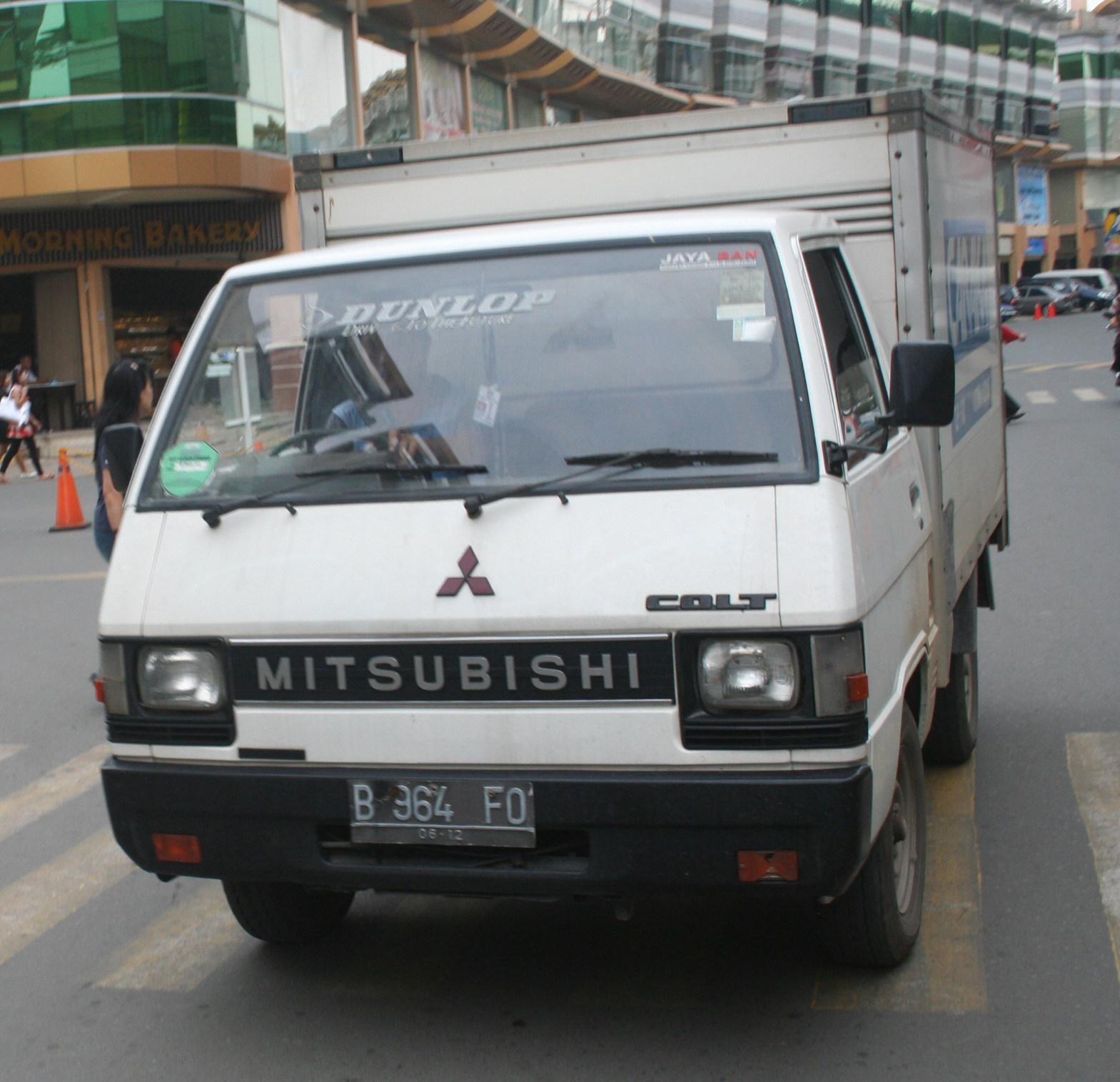 Mitsubishi Colt L300 box truck (Indonesian market version of the 1979 Delica/L300, still in production there)